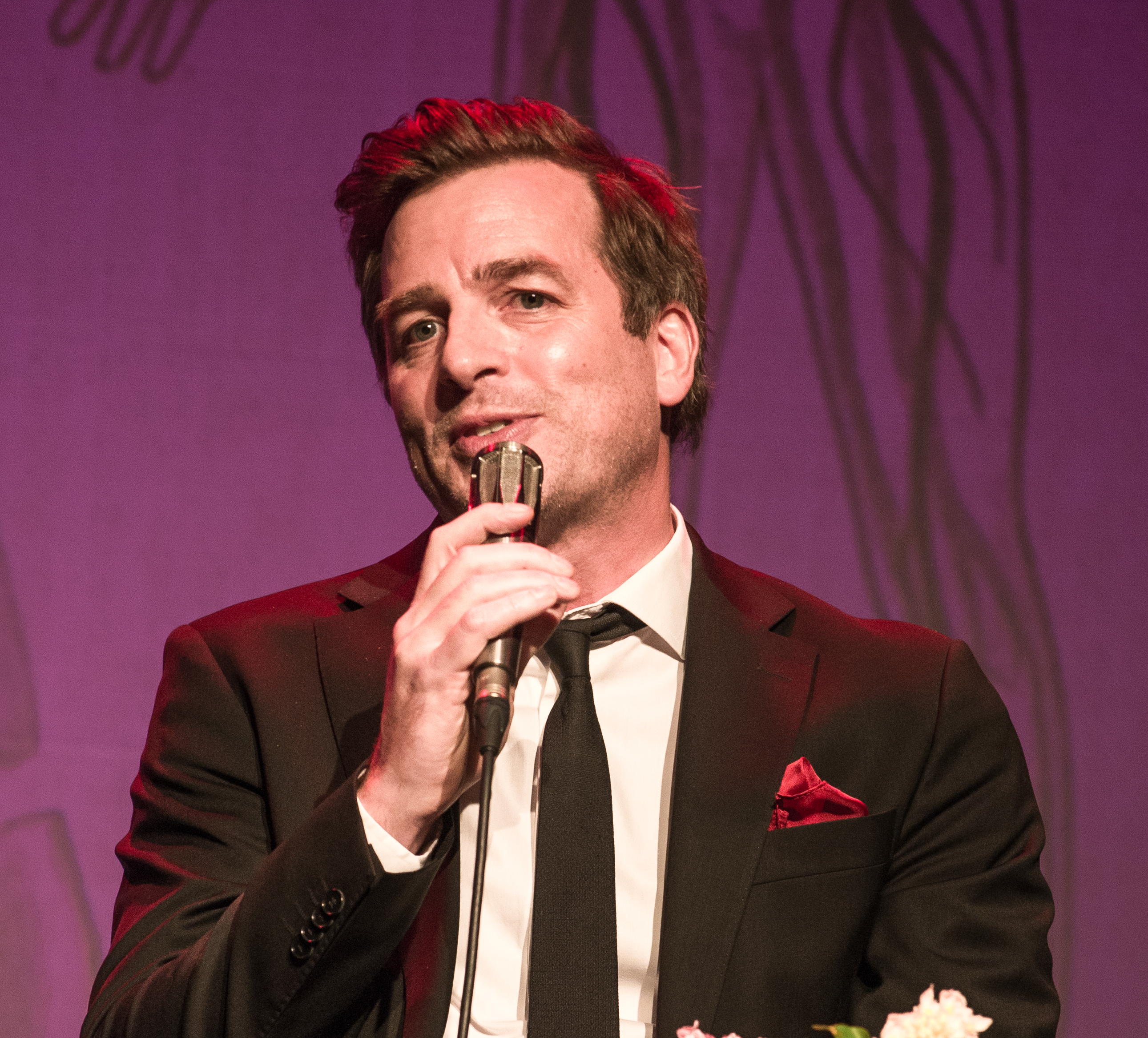 Christopher Wollter during a performance in conjunction with a seminar organized by Fri Tanke at Scalateatern in Stockholm on November 26, 2019.